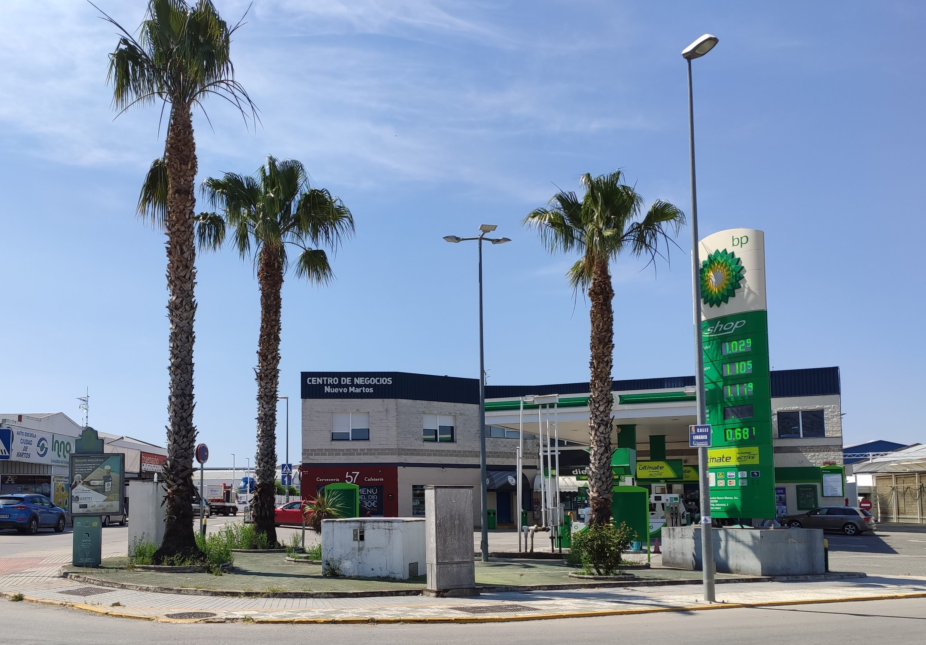 Service area in Martos, Jaén (Spain).